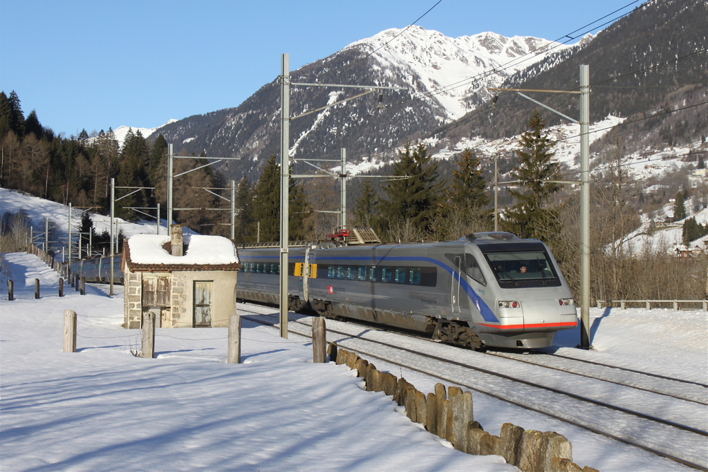 SBB CFF FFS ETR470 009 running from Basel SBB to Milano C.le as EC 153 at Rodi-Fiesso (Switzerland).